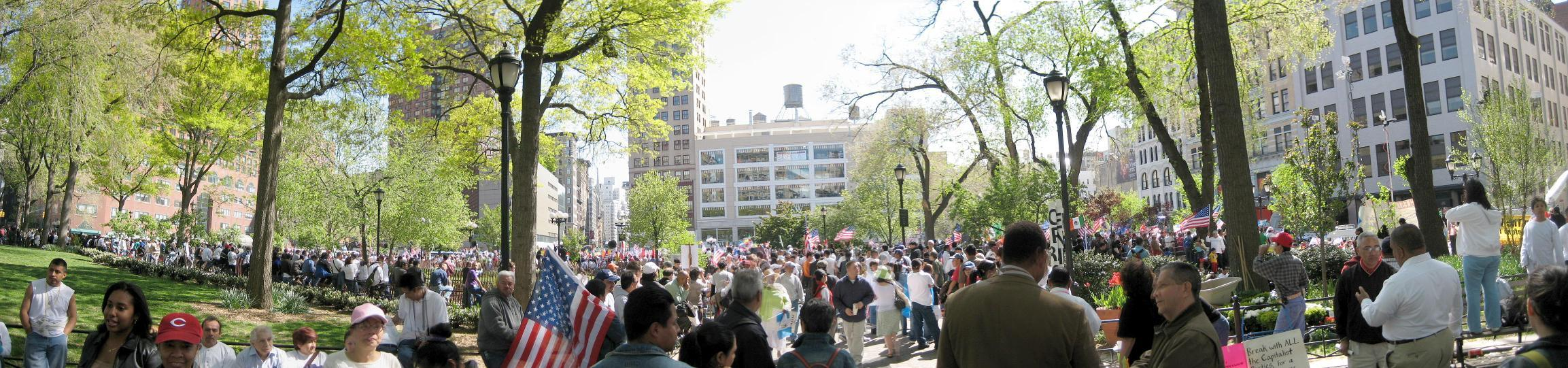 Great American Boycott rally in New York City's Union Square Park at 4pm EST